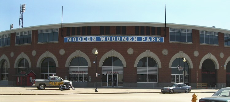 Modern Woodmen Park in Davenport, Iowa